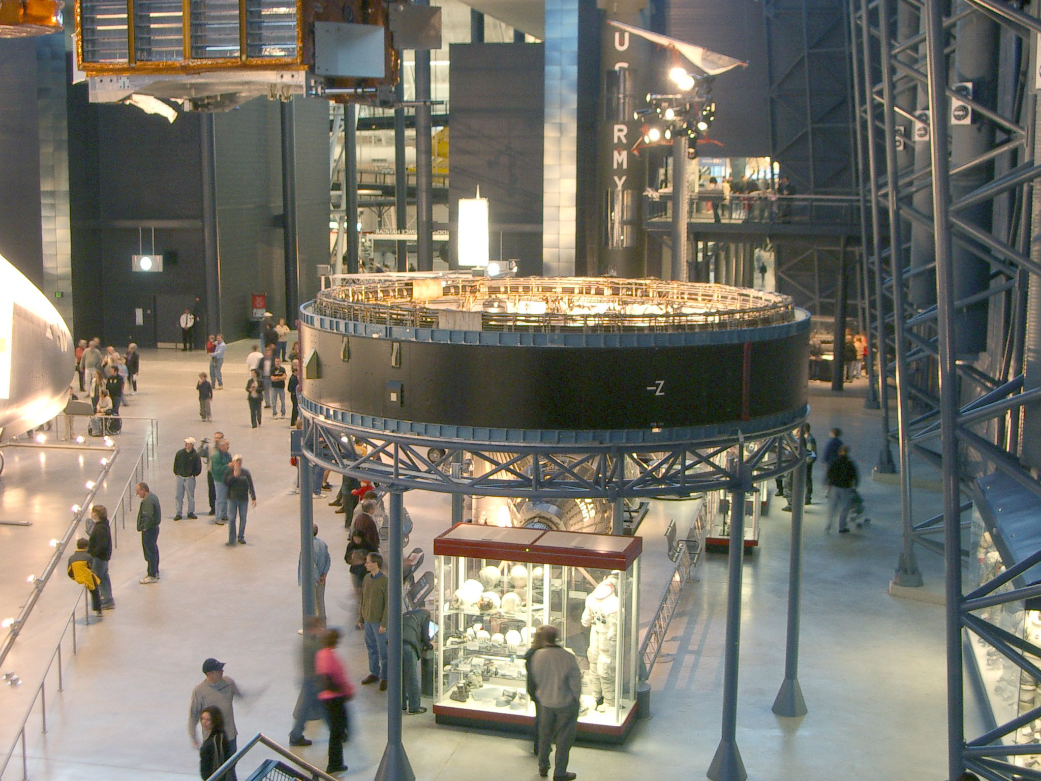 Photograph of Instrument Unit #514 at National Air & Space Museum, Udvar-Hazy Center, Dulles, VA, taken 20 November 2004 by Edgar Durbin. The nose of Space Shuttle Enterprise is visible at left.